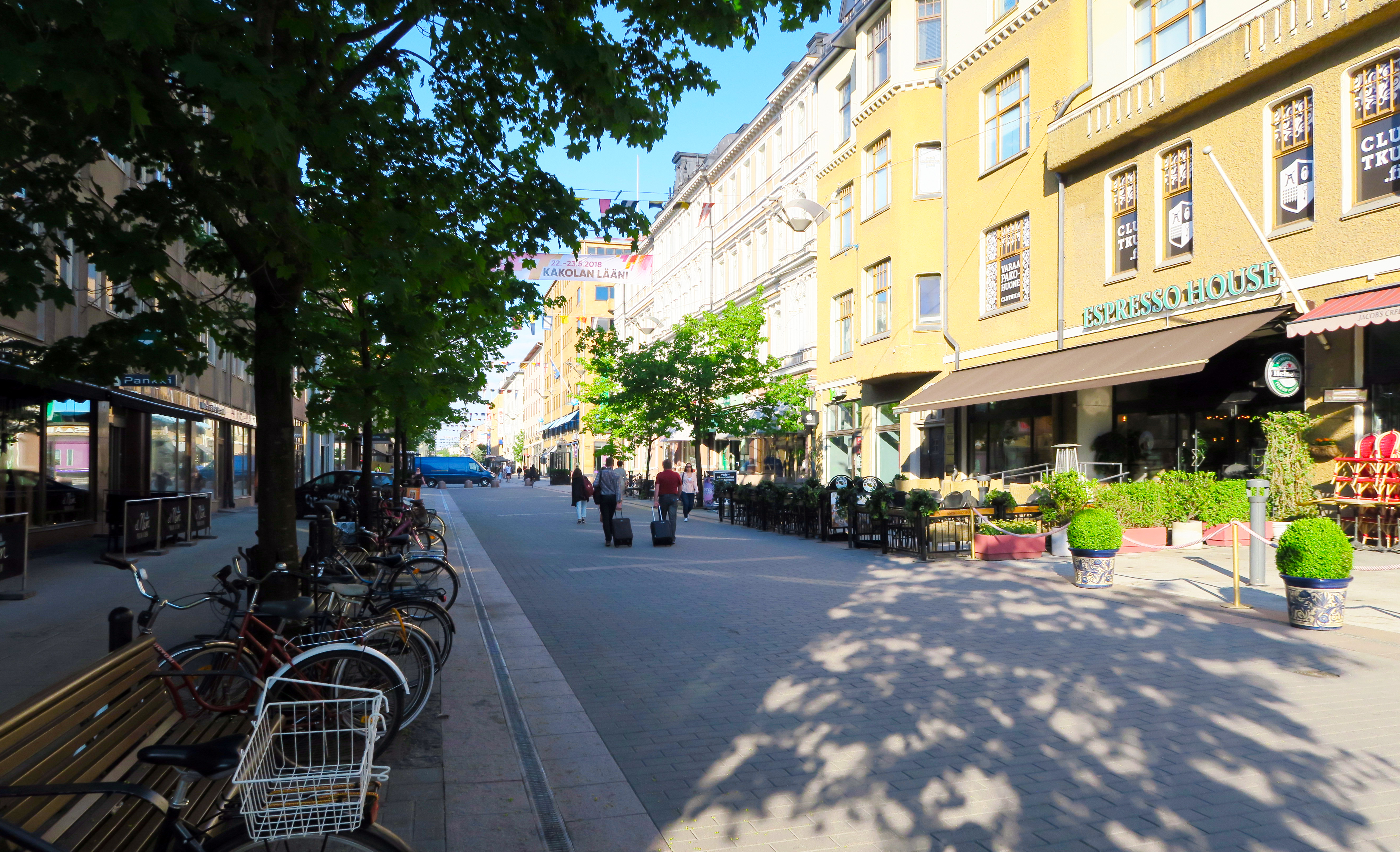 Yliopistonkatu in Turku, Finland at summer 2018